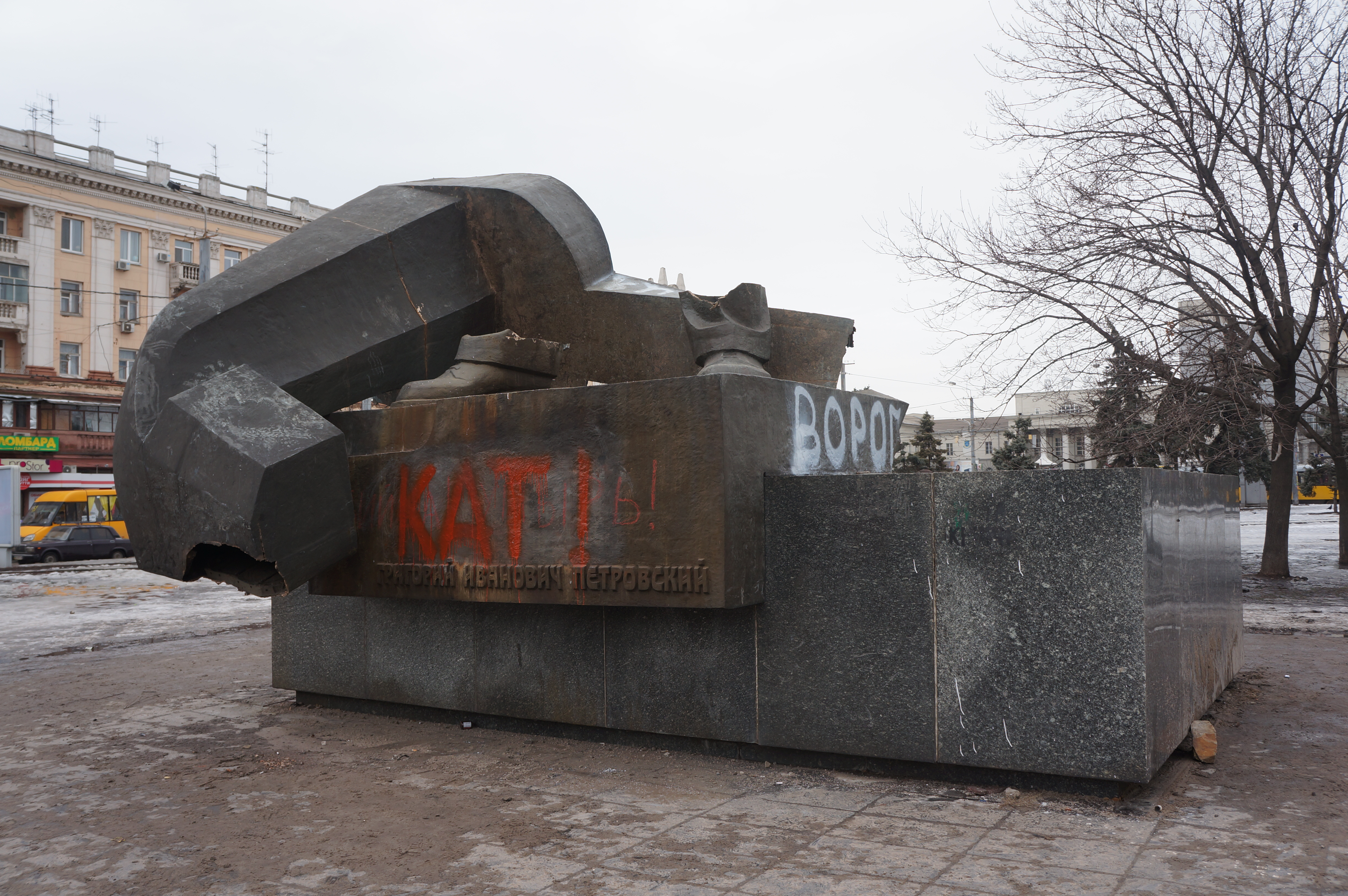 Demolished monument to H. Petrovskyi in Dnipropetrovsk